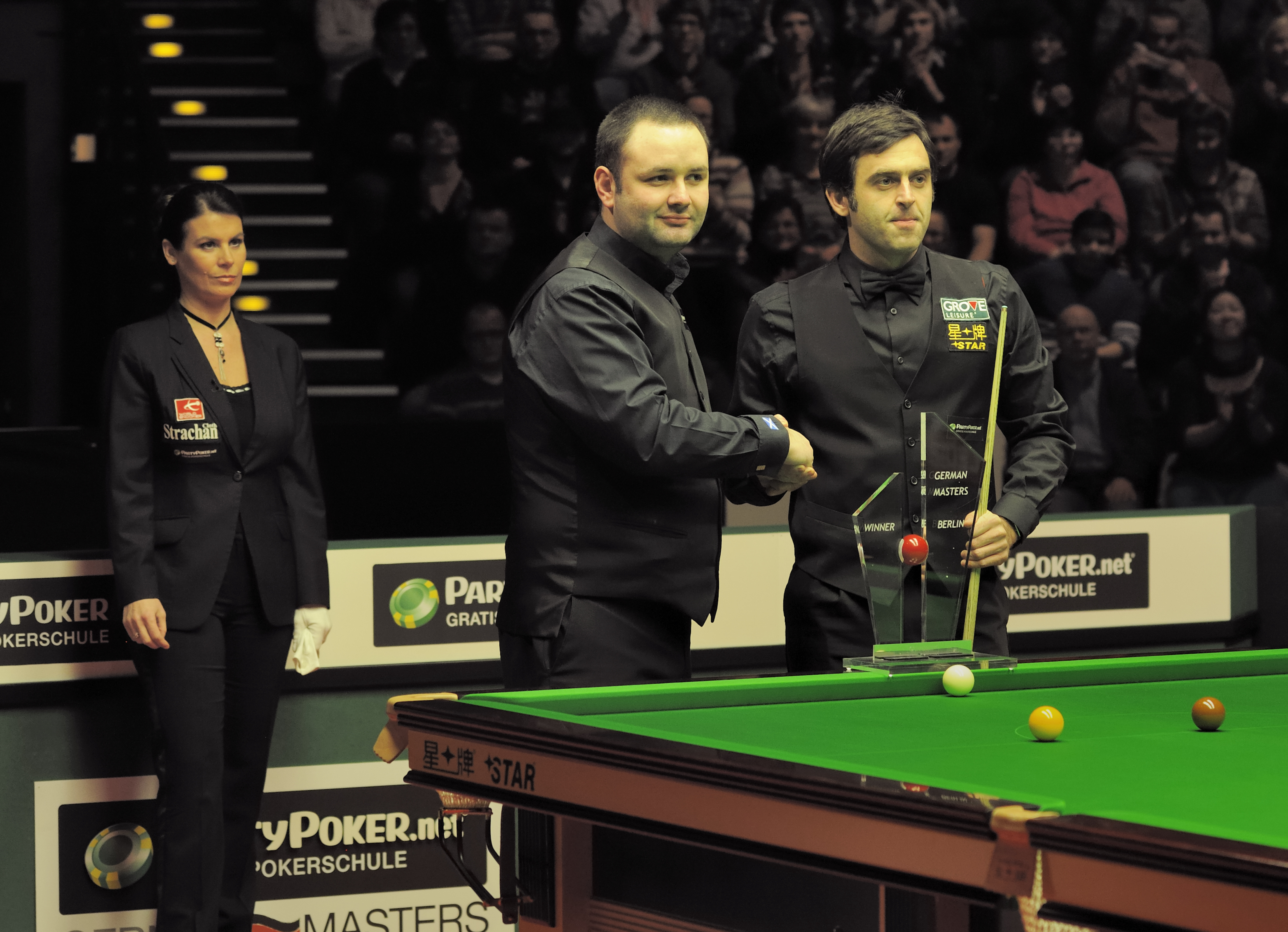 Picture taken in Berlin during the Snooker German Masters in 2011. Stephen Maguire, Ronnie O’Sullivan, and Michaela Tabb.